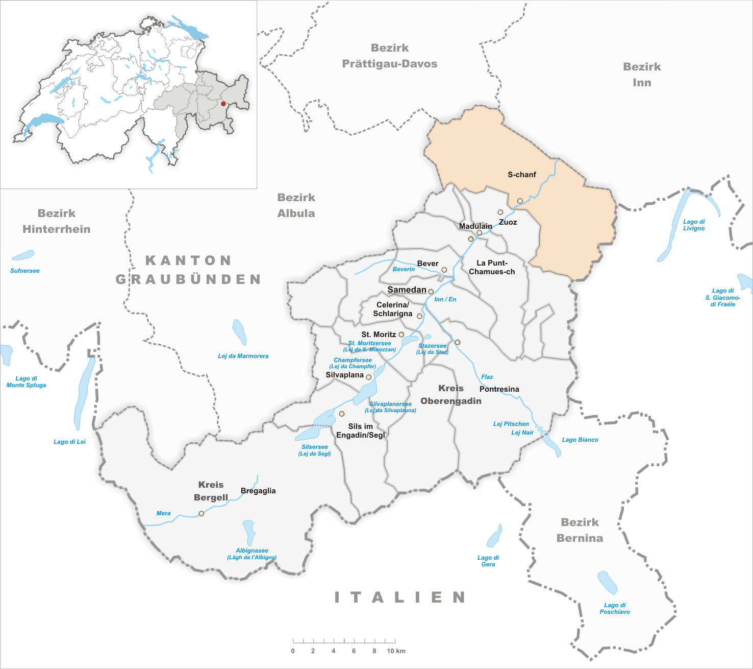 Municipality S-chanf